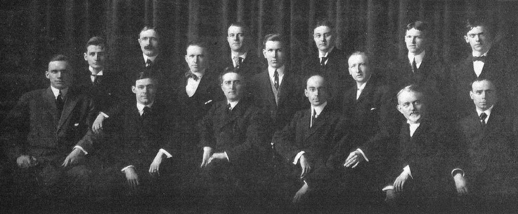 The Zeta Chapter of Phi Mu Alpha Sinfonia from the 1908 Savitar Yearbook of the University of Missouri